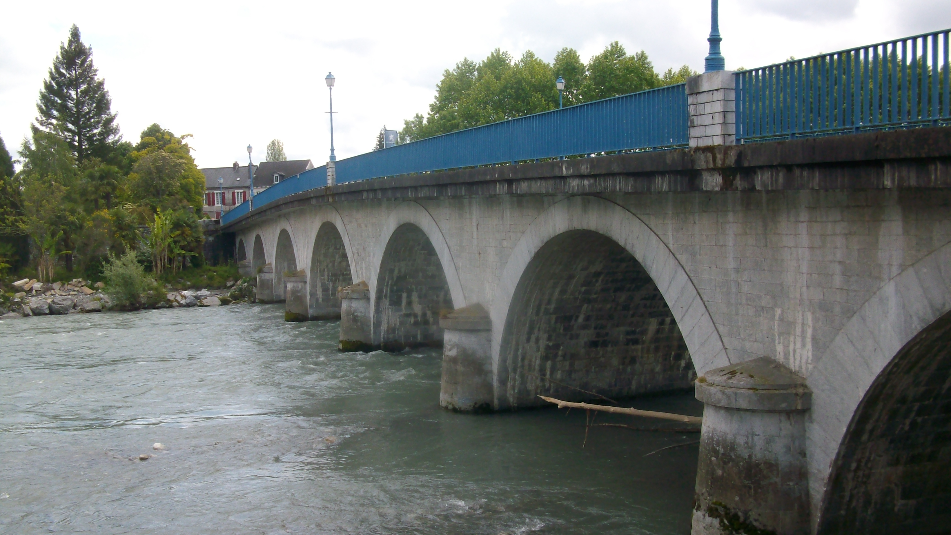 Bridge Nay, France